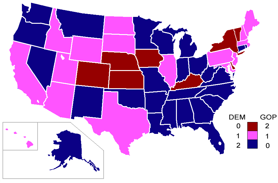 Map showing party composition of the United States Senate at the start of the 88th Congress